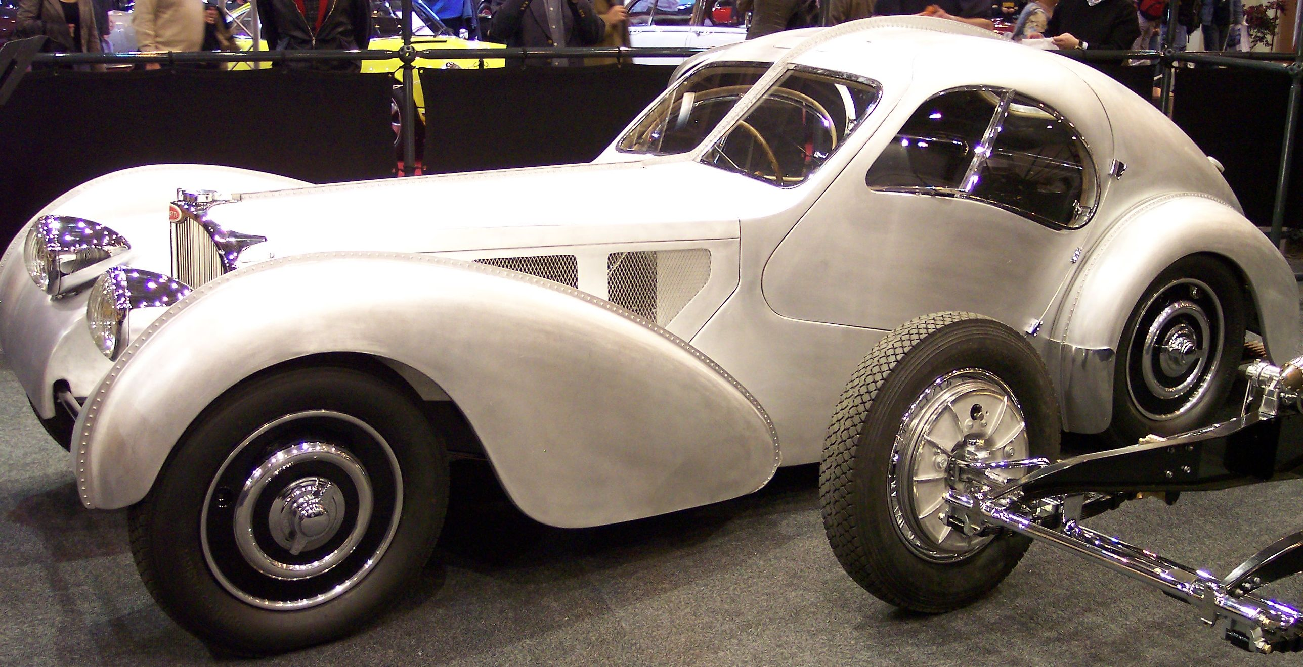 Replica of a Bugatti Type 57 Coupé.